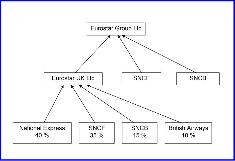 The scheme of the Eurostar group.